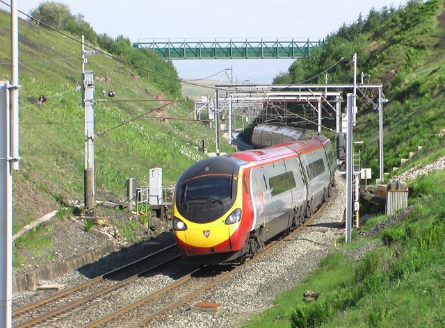 Shap Summit The Lancaster and Carlisle Railway engineered by Joseph Locke managed to negotiate the Cumbrian fells without the need for a tunnel, but the incline from Tebay at 1 in 75 ended in this deep cutting through the summit ridge.